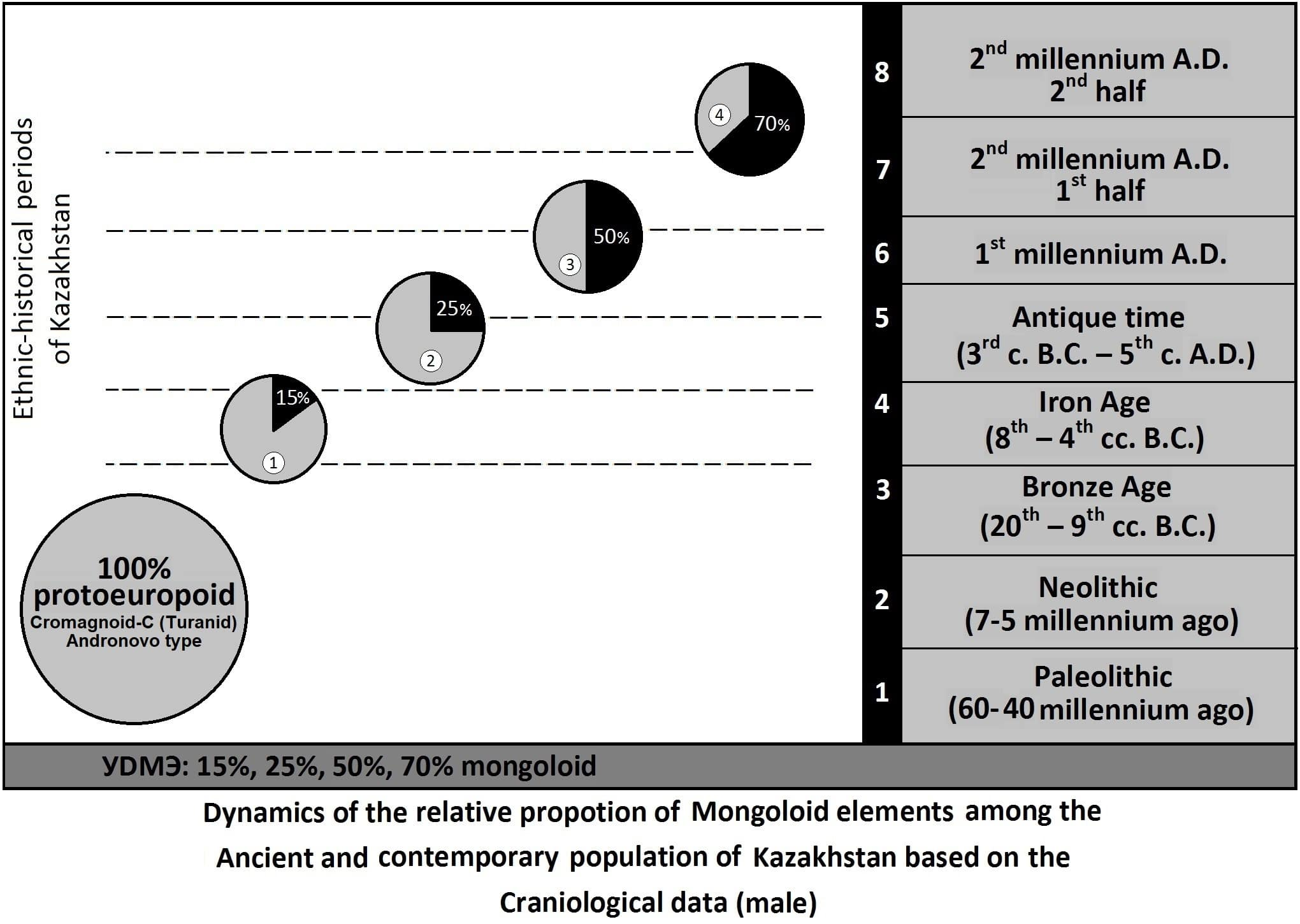 "Dynamics of increase of relative portion of Mongoloid elements among inhabitants of Kazakhstan from ancient time till nowadays illustrating mixing process between local Europoid population and newly arrived Mongoloid tribes. This process proceeded at the territory of Kazakhstan and had wide-ranging, defining and gradual characters, extended for several thousand years having started from V c. B.C. and completed by XV c. A.D. by final formation of racial type and ethnic consolidation of Kazakh people." Selfmade copy of this file. Source: "Physical Anthropology of Kazakh People and their Genesis" by O. Ismagulov & A. Ismagulova Ch., Valikhanov Institute of History and Etnology. Almaty, Kazakhstan. In: SCIENCE - Private Fund for Supporting of Science and Technologies. Science of Central Asia, January-February 2010, No. 1 Source2: Cser Ferenc, Gyökerek. (2000)/ Töprengés a magyar nyelv és nép kárpát-medencei származásáról, page 93 Source3: Pal Lipták. Anthropologiai Közlemények Anthropologiai Közlemények, 5. (1961)/ 1-4. füzetP. page 83